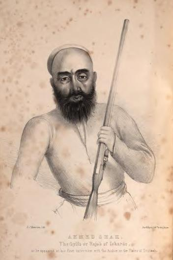 ahmed shah was the last maqpon emperor of skardu his kingdom was invaded by dogras in 1840